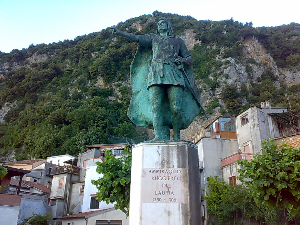 The admiral Roger of Lauria monument in his birth town, Lauria (Basilicata, Italy)